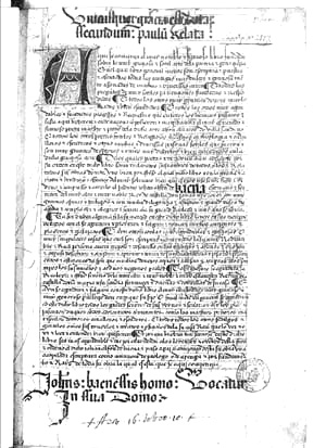 Image of "Cancionero de Baena" (Juan Alfonso de Baena).